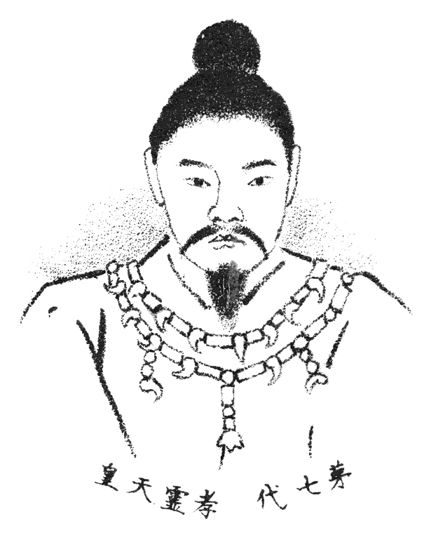 7th Tennō Kōrei (孝霊天皇 Kōrei-tennō), who is presumed to have reigned Japan from 290 BC till 215 BC.